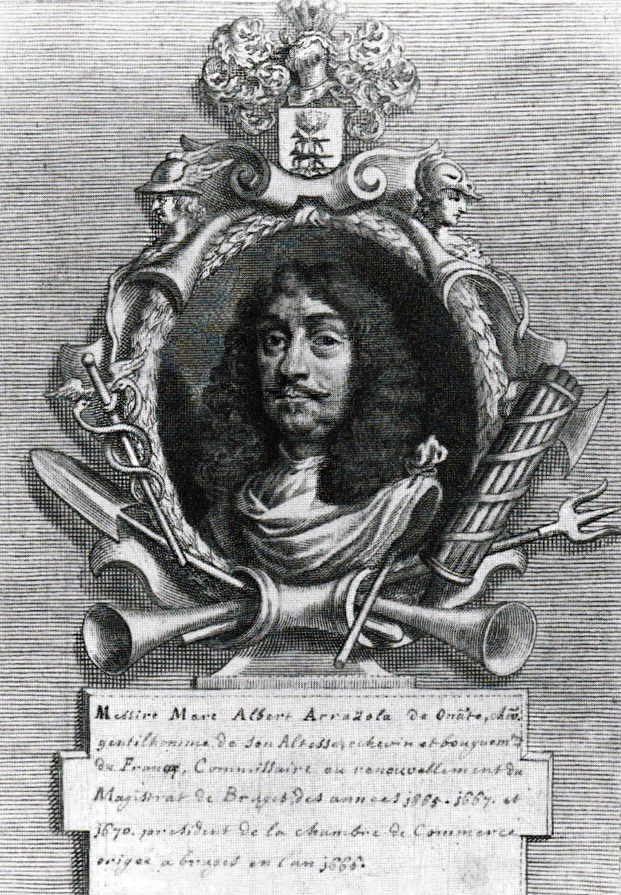 18th Century engraving of a lost portrait of Marc Albert Arrazola